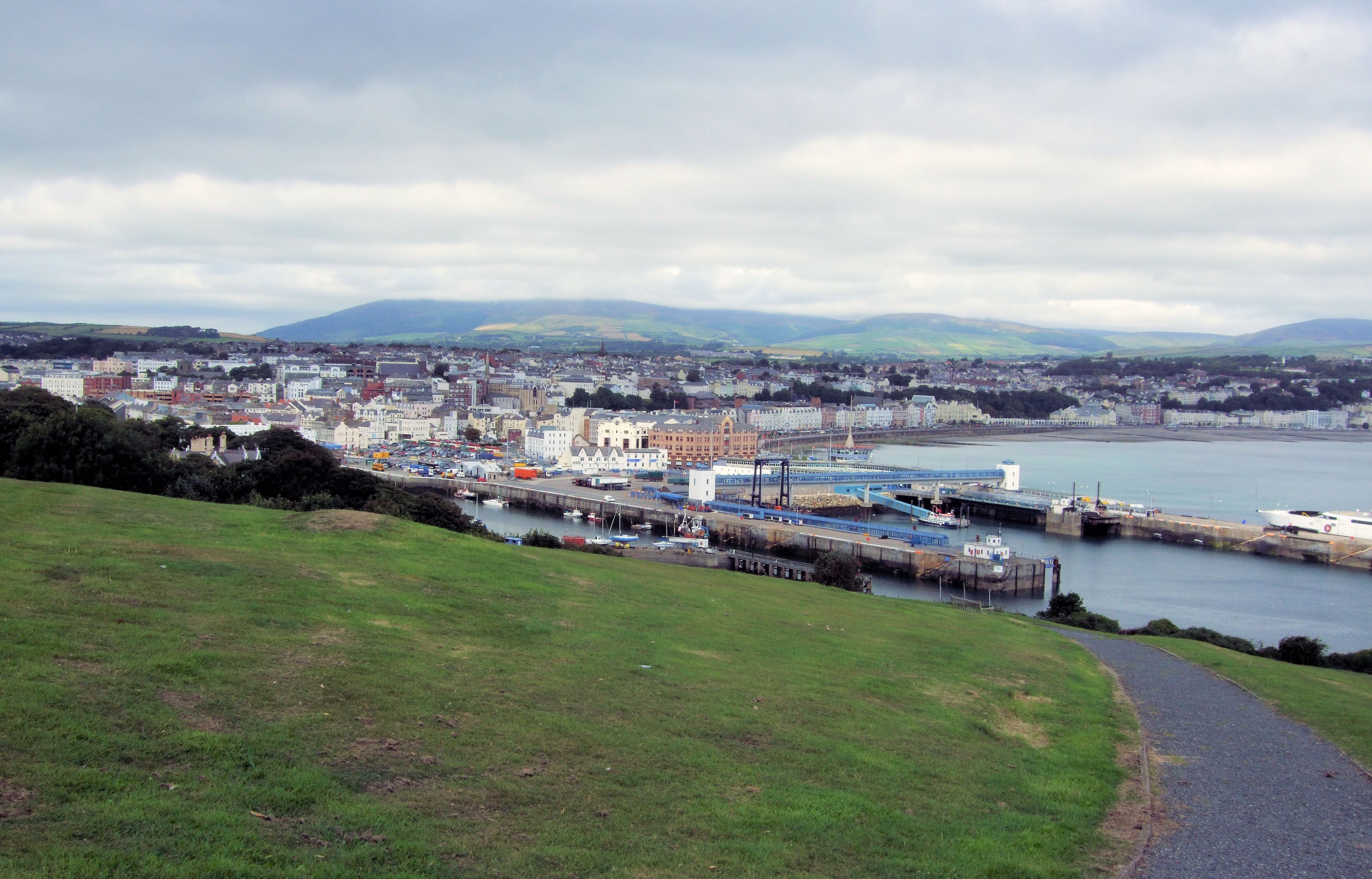 Douglas Head is a rocky point on the Isle of Man overlooking Douglas Bay and harbour. Views extend to include Snaefell Mountain and Laxey.